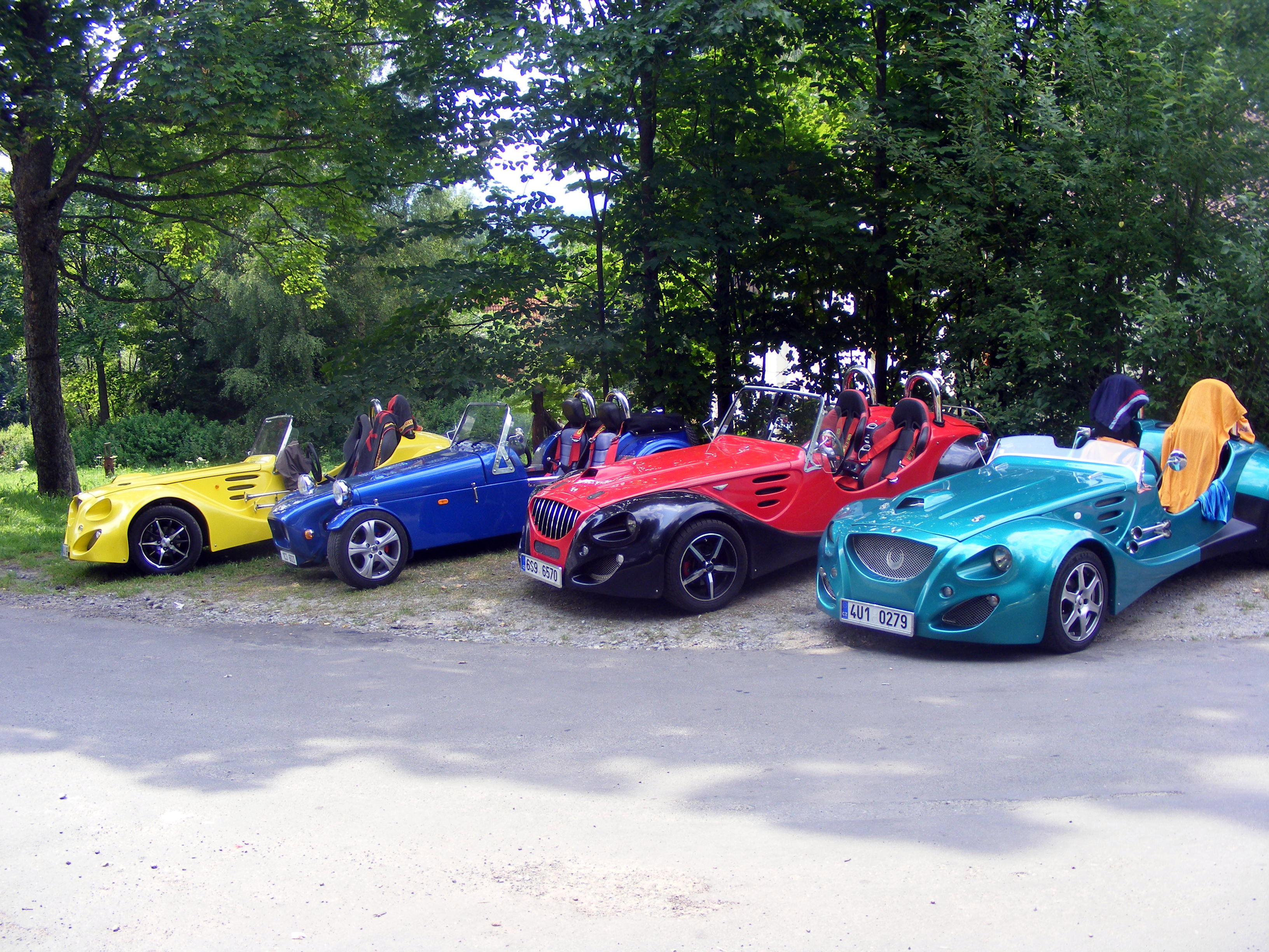 Kaipans on Lipno